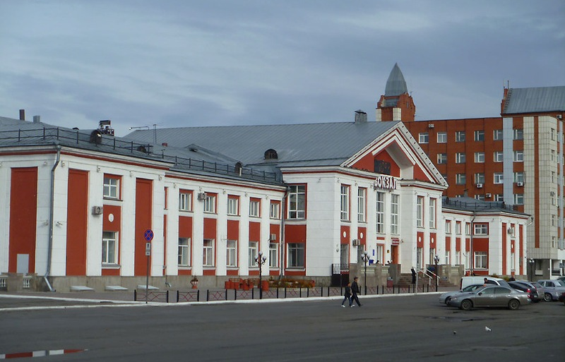 Barnaul Station, Russia